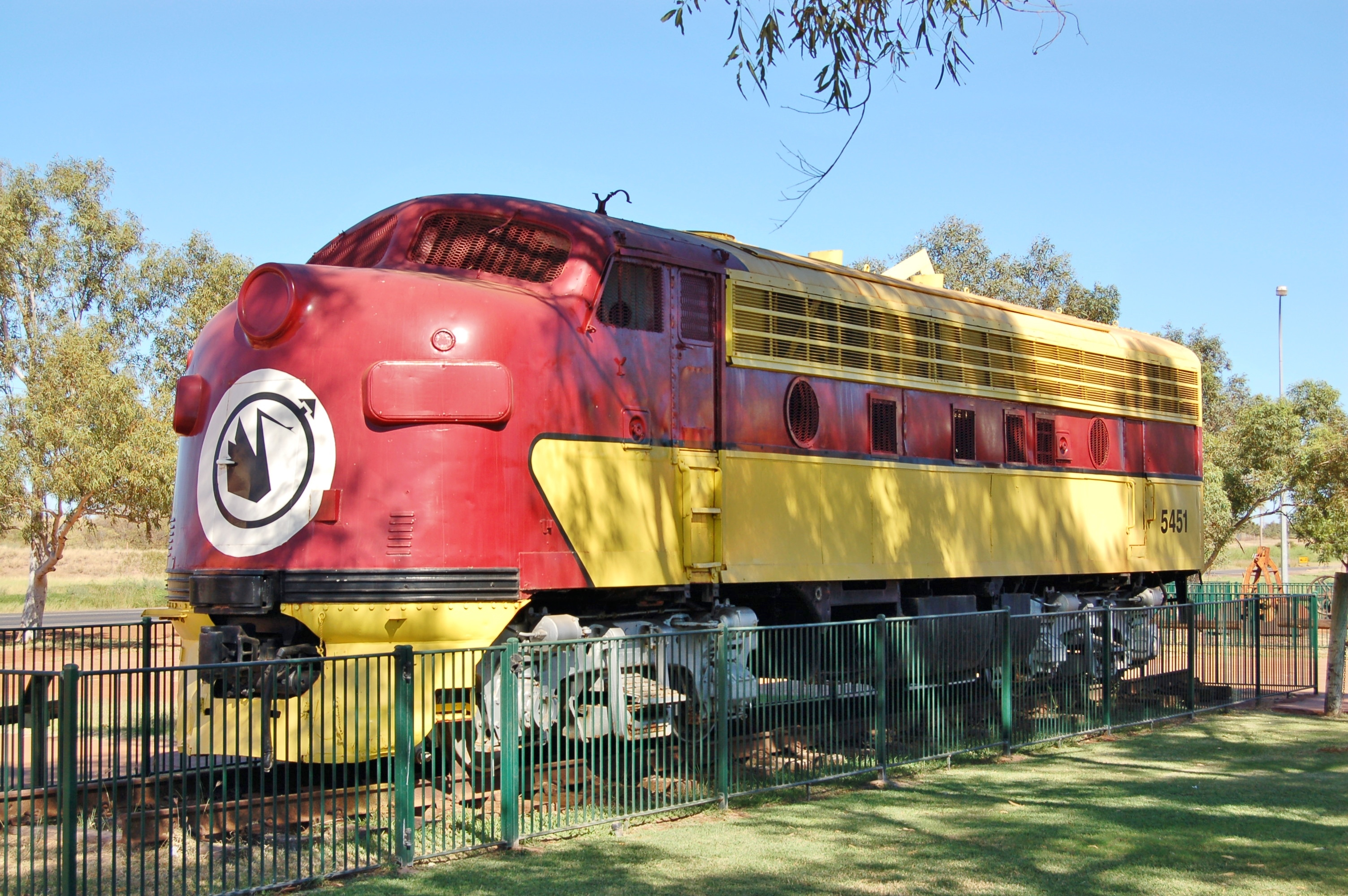 Ex-Western Pacific Railroad, ex-Mt Newman Mining EMD F7 Bo-Bo diesel-electric loco no. 5451, at the Don Rhodes Mining and Transport Museum, Wilson Street, Port Hedland, Western Australia. This 1,120 kW unit was built in 1951 by General Motors - EMD at La Grange, Illinois, USA. In 1967, the WPR sold it to Mt Newman Mining, which used it in the construction of the Mt Newman railway between Mt Whaleback and Port Hedland. Following the completion of the railway's construction, the locomotive was used to haul the service train until it was retired in December 1971. (Source: the plaque adjacent to the exhibit.)